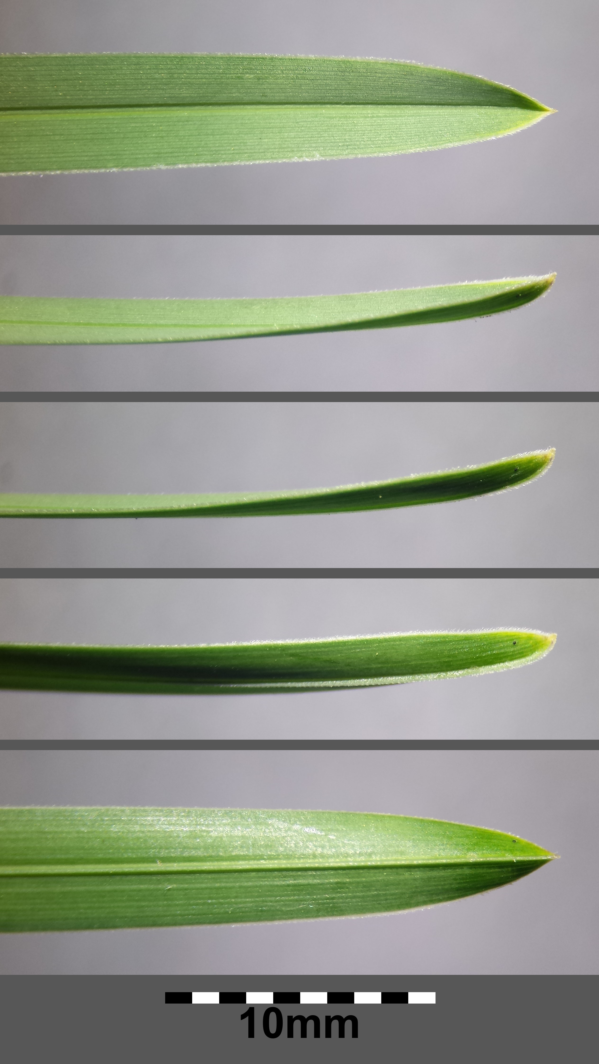 Tip of leaf with barge like tip Taxonym: Sesleria caerulea (s. str.) ss Fischer et al. EfÖLS 2008 ISBN 978-3-85474-187-9 Location: Blosenberg near Winzendorf, district Wiener Neustadt, Lower Austria - ca. 380 m a.s.l. Habitat: wood of Pinus nigra